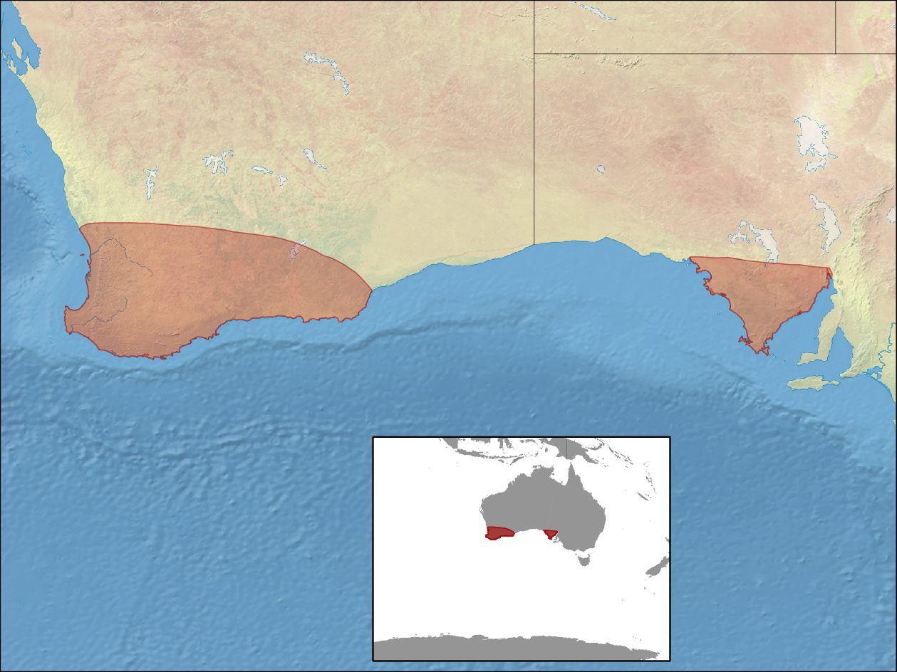 geographic distribution of Bassiana trilineata (Reptarium) / Bassiana trilineatus (IUCN)